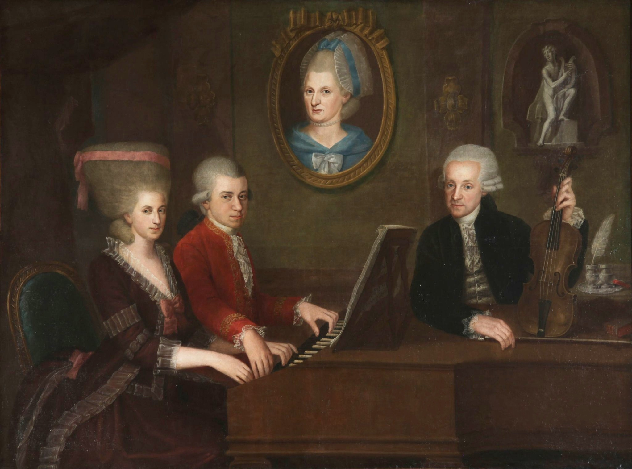 Family portrait: Maria Anna ("Nannerl"), Wolfgang, Anna Maria (medallion) and Leopold Mozart